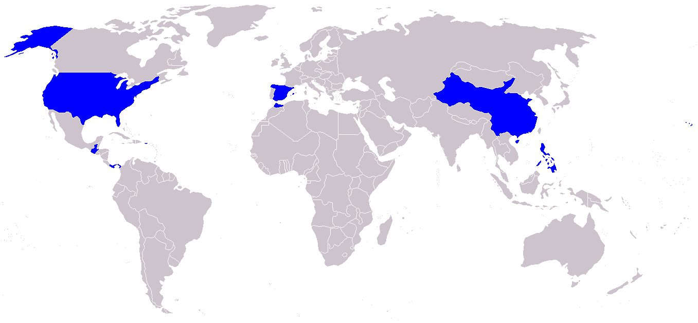 Operators of the Boeing P-26. Own work, derivative of File:BlankMap-World-WWII.PNG.